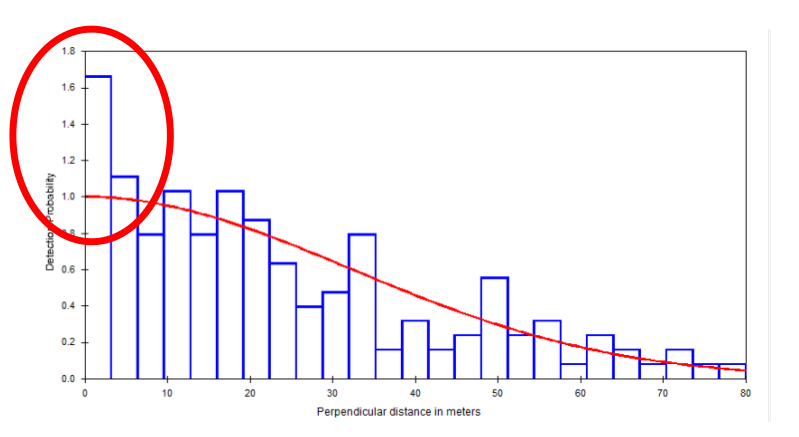 Line transect data from a blackbird survey. The excessive number of detections in the first data bin indicates that detection angles close to zero were rounded to zero to some extent by observers.